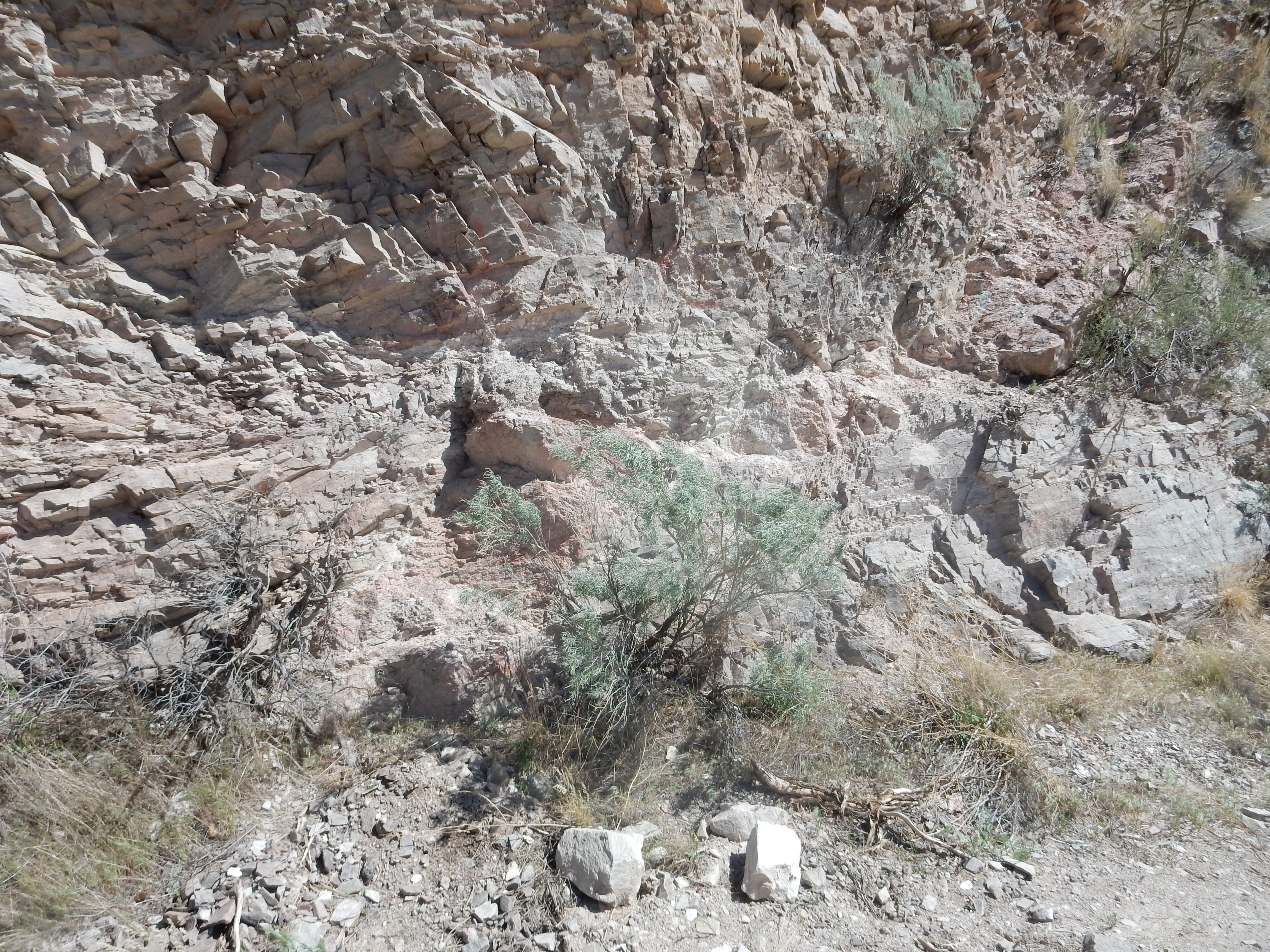 This image shows quartzite of the Precambrian Glenwoody Formation at the base of the Pilar Cliffs, New Mexico, United States.